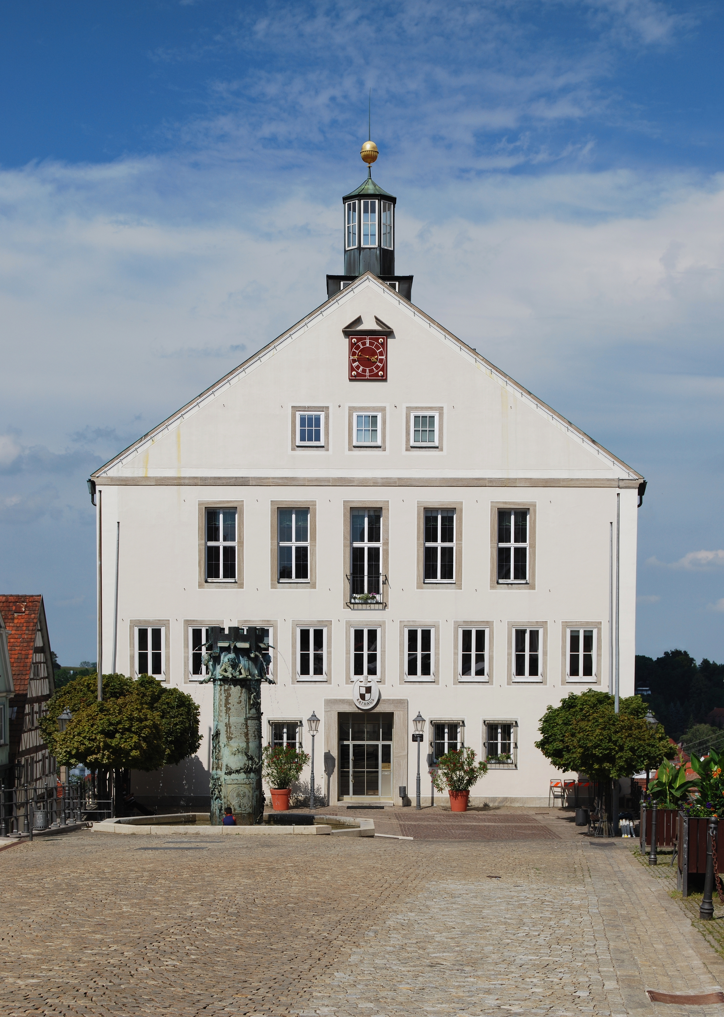 The new town hall at the market place of Hechingen, Baden-Württemberg.